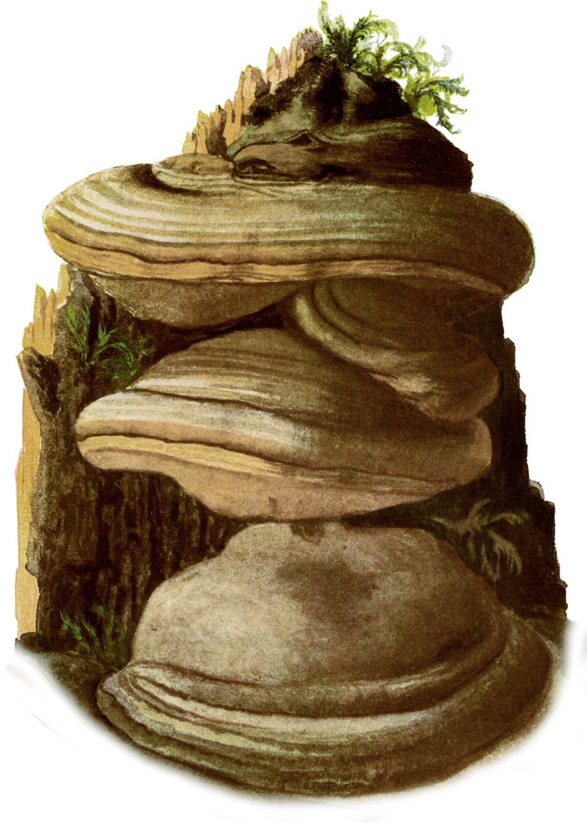 Fomes fomentarius.